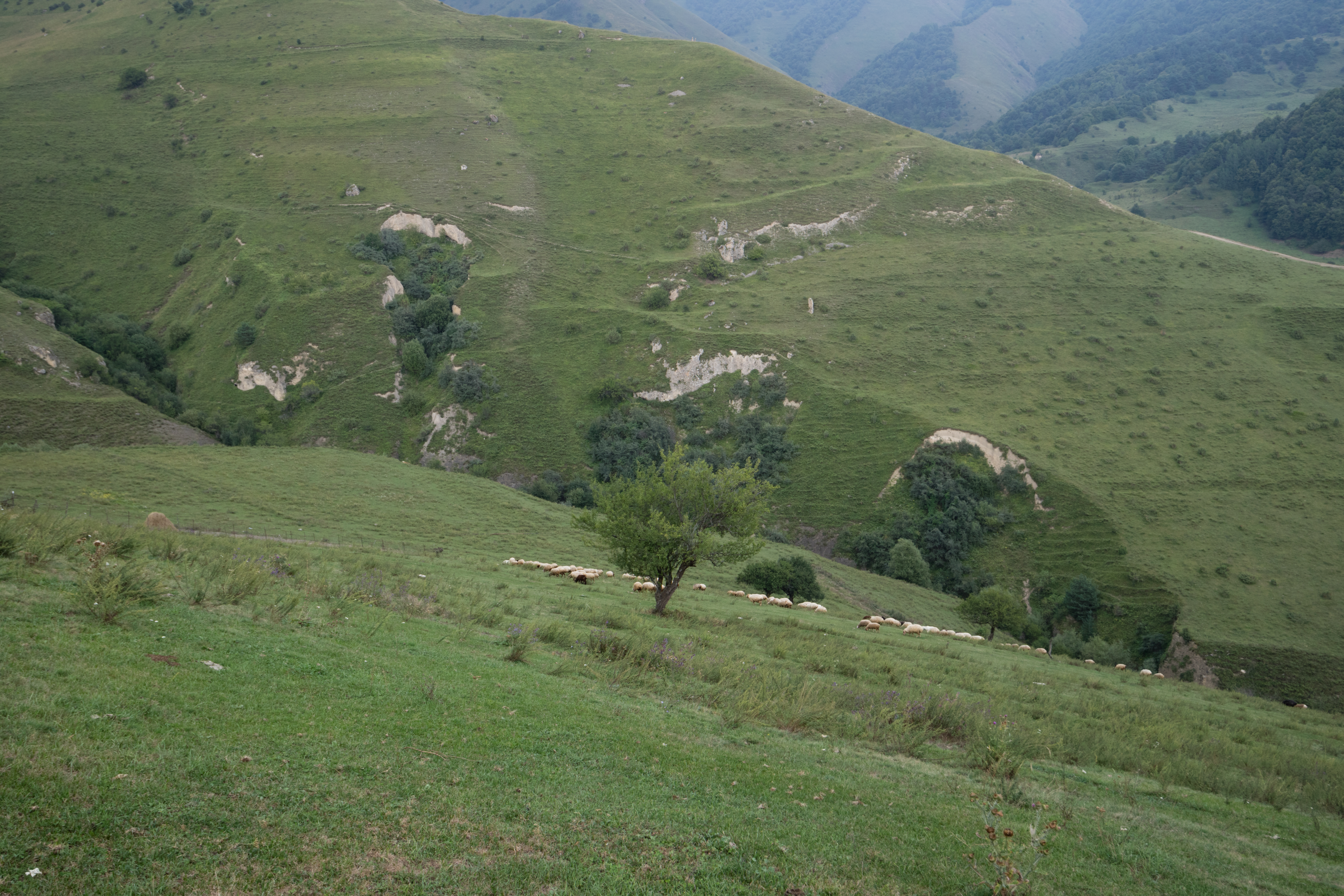 The Erzi Reserve is in mountainous terrain on the north slope of the Caucasus. The northern third of the territory is forested, the ridge area is alpine meadows and mountain steppe. Over 160 historical and cultural sites are also protected by the reserve - martial towers, temples, necropolis tracts, sacred groves, and structures from ancient, medieval and later cultures, many of the Ingush people. This image is related to the protected area of Russia number 0600002